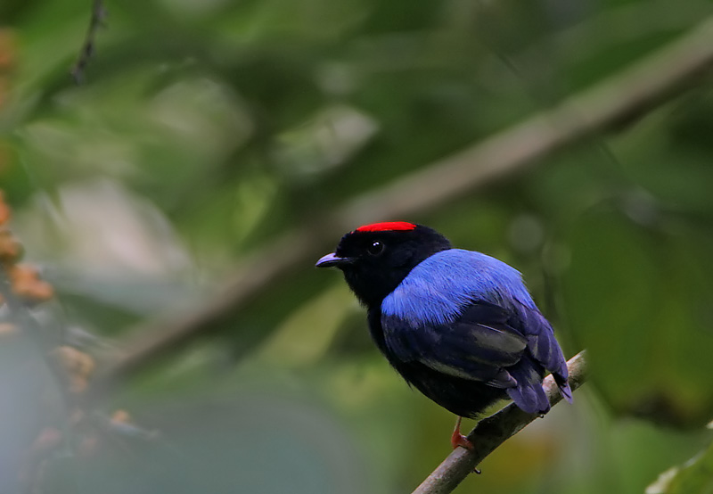 A Blue-backed Manakin on Grafton Estate, Tobago, Trinidad and Tobago.